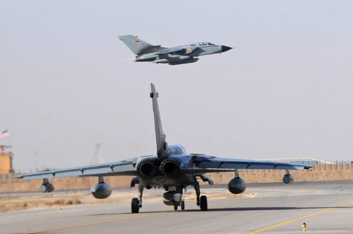 Mazar-e-Sharif, Afghanistan--A German PA-200 Tornado gets ready to take off while another one soars in the sky at Mazar-e-Sharif, Jan. 12. The Germans are helping ISAF in assisting the Afghan government in extending and exercising its authority and influence across the country, creating the conditions for stabilization and reconstruction.